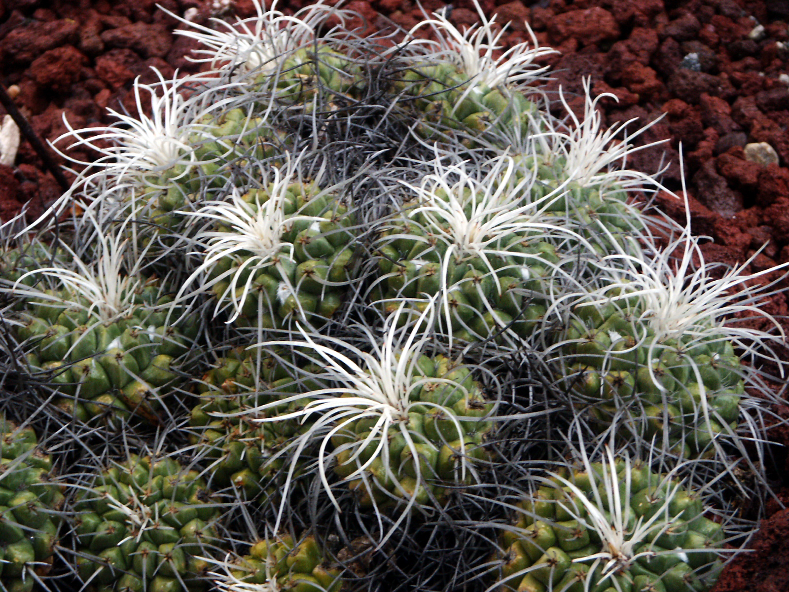 Mammillaria compressa, Huntington Library Desert Botanical Garden in afternoon after and during rain, February 2009 - Various cactus and succulent plants